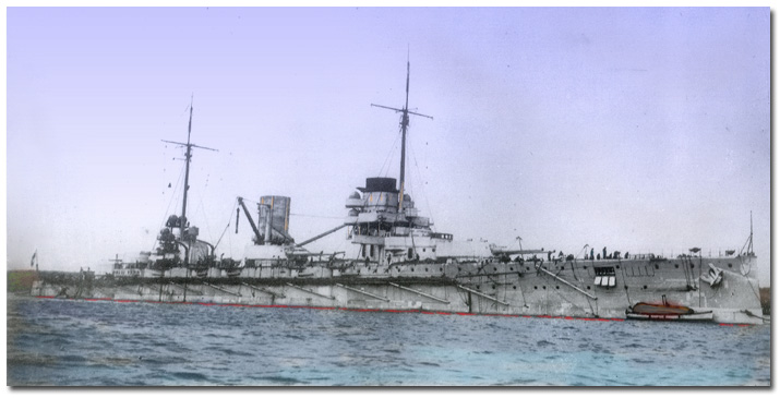 German battlecruiser SMS Goeben - Pre-First World War postcard - copyright expired.